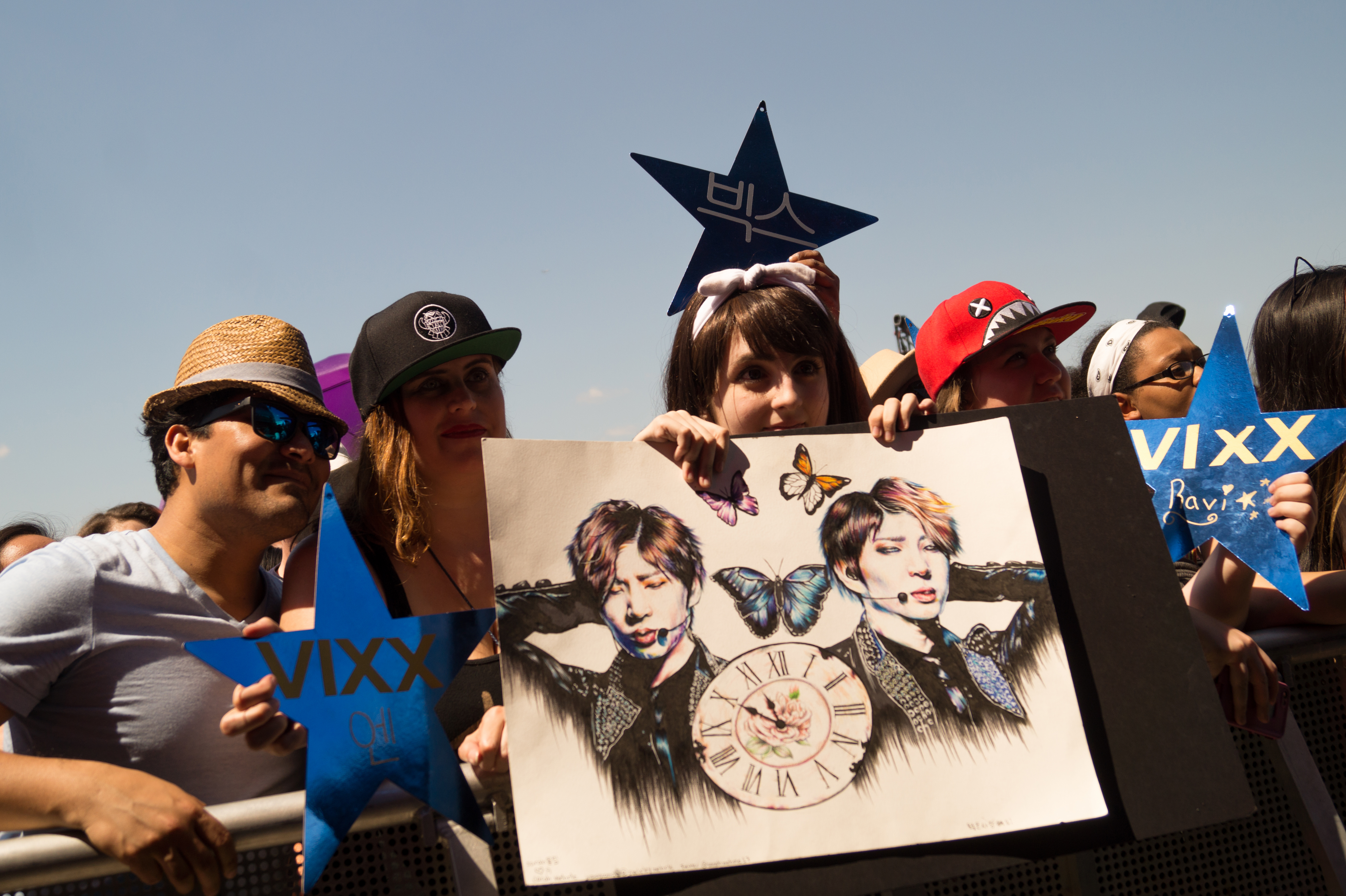 Various pictures of performers, speakers and more at the Global Citizen ( 2015 Earth Day event and concert at the Washington Monument on Saturday, April 18, 2015 by Mary Nichols (aka DJ Fusion of the FuseBox Radio Broadcast) taken with a Sony A58 camera and various lenses.